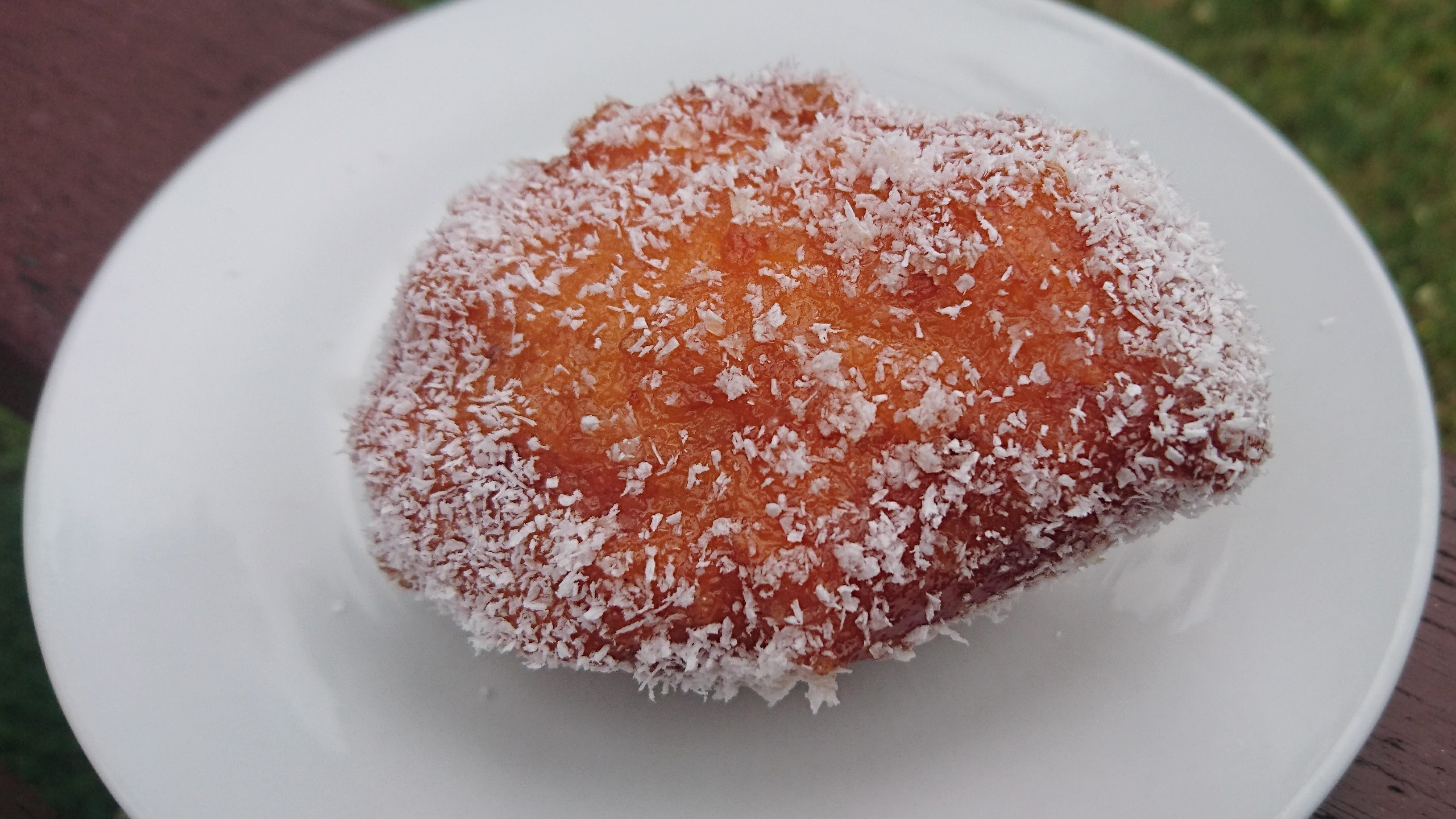 A Koe'sister, a traditional Cape Malays pastry from Cape Town, South Africa.